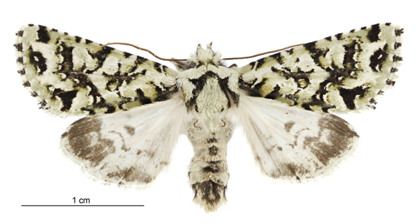 Male specimen of Meterana exquisita photographed by Birgit E. Rhode, Landcare Research New Zealand Ltd.